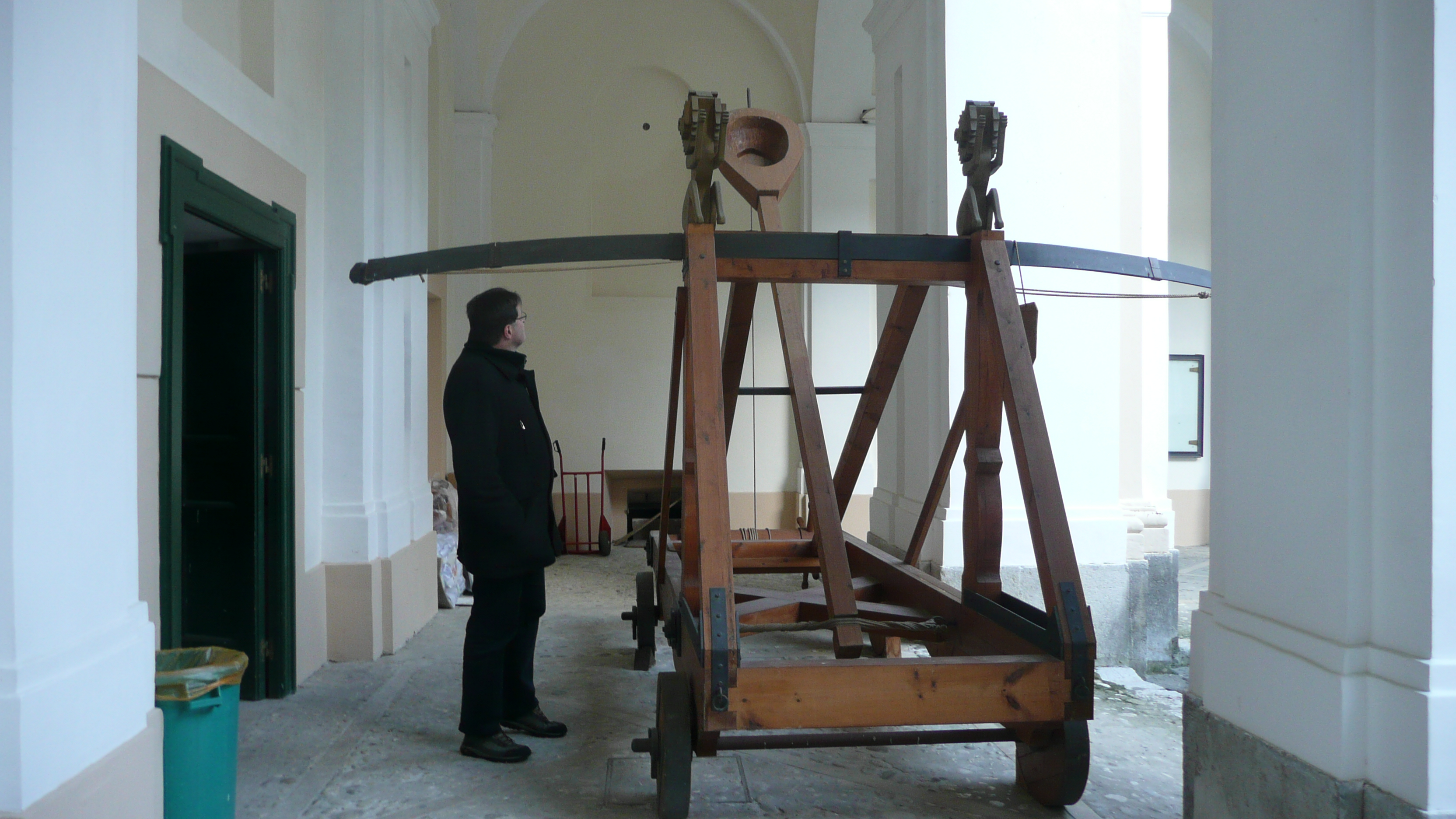 front of medieval catapult 2 in Mercato San Severino, Italy